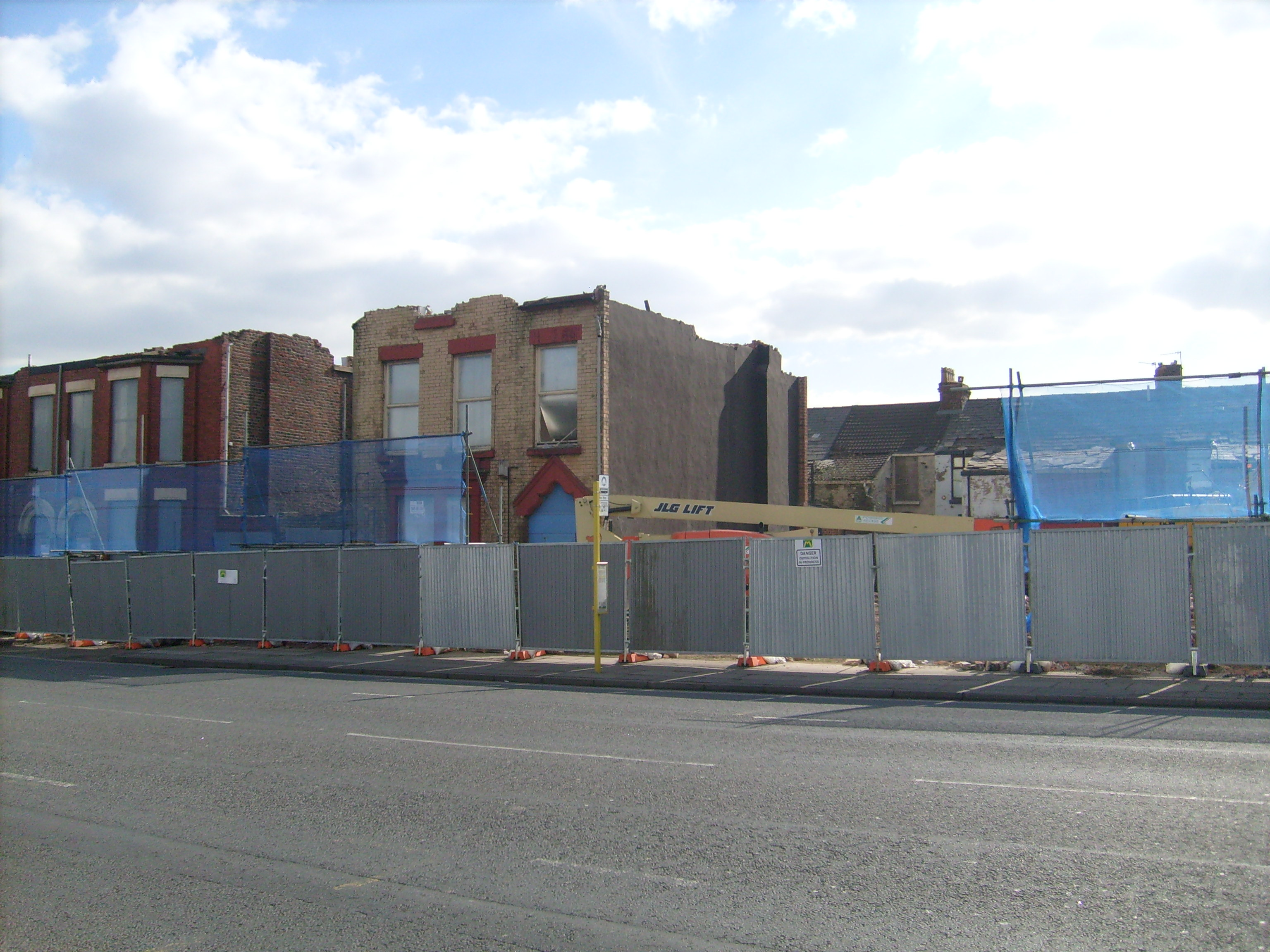 Edge Lane, Liverpool, March 09 2010.jpg